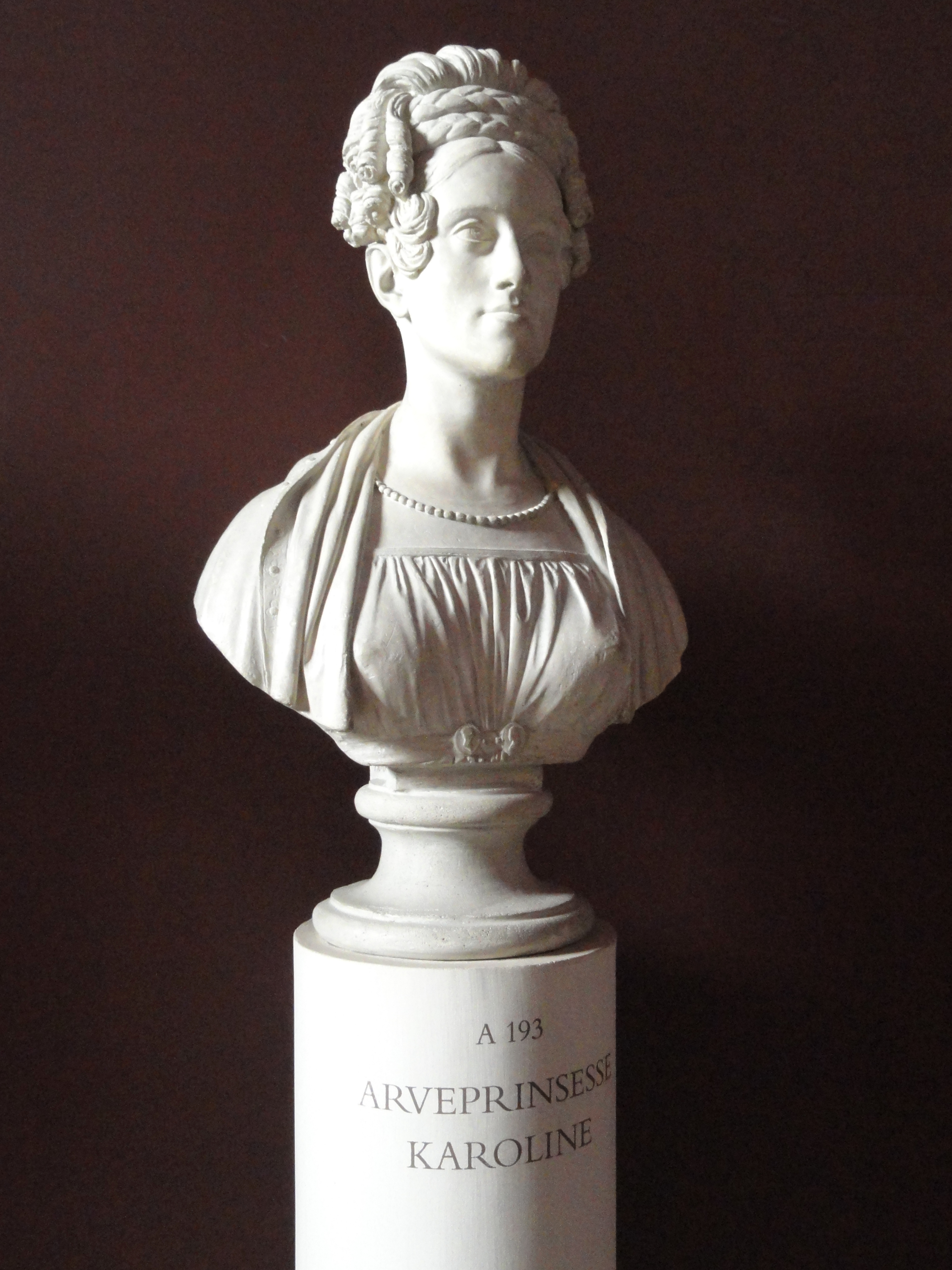 Sculpture in Thorvaldsens Museum, Copenhagen, Denmark. Sculptor: Bertel Thorvaldsen (c. 1770-1844). This artwork is now in the public domain because the artist died more than 70 years ago.